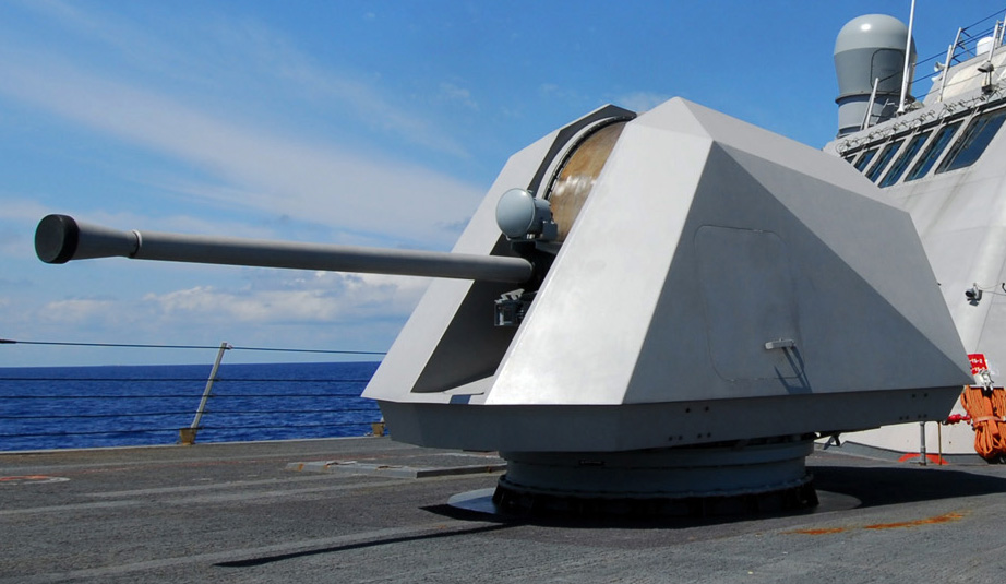 CARIBBEAN SEA (Feb. 20, 2010) The littoral combat ship USS Freedom (LCS-1) transits the Caribbean Sea during its maiden deployment. Freedom is conducting counter-illicit trafficking operations and theater security cooperation in the U.S. 4th Fleet area of responsibility.